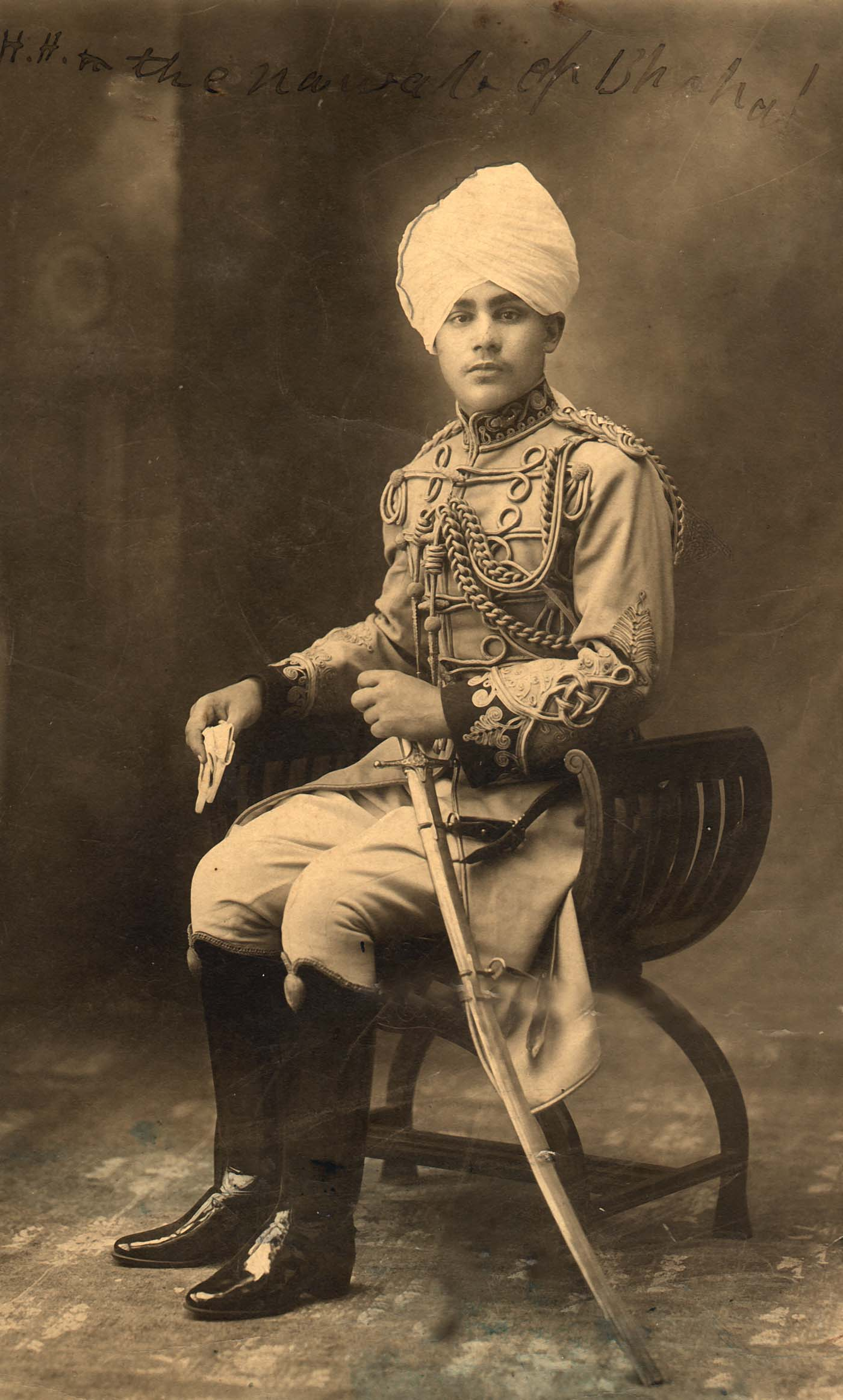 Nawab hmidulla khan young